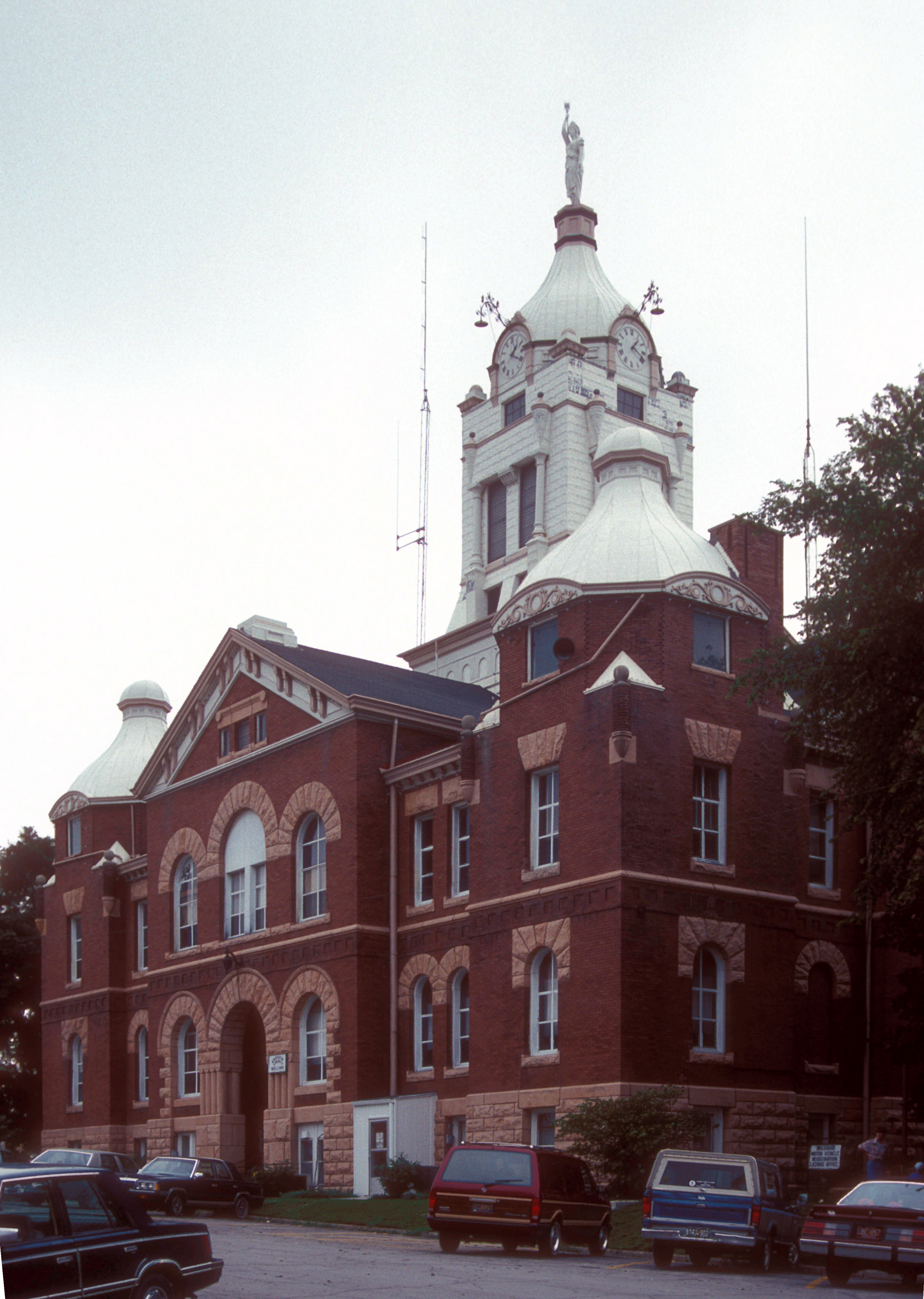 BUILT IN 1898 IN VICTORIAN AND ROMANESQUE STYLE